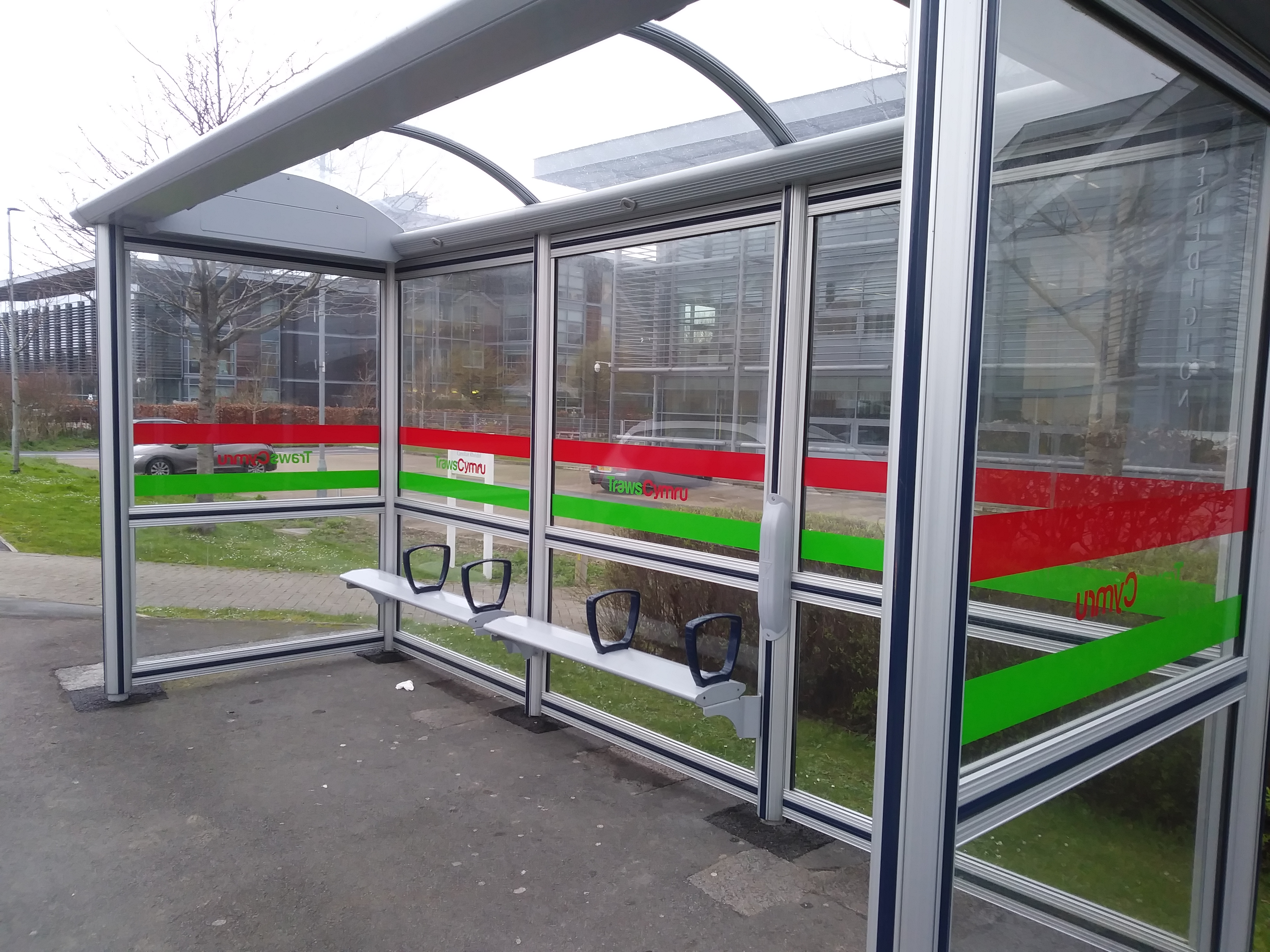 Traws Cymru bus stop outside Welsh Govt offices, Aberystwyth, 2019